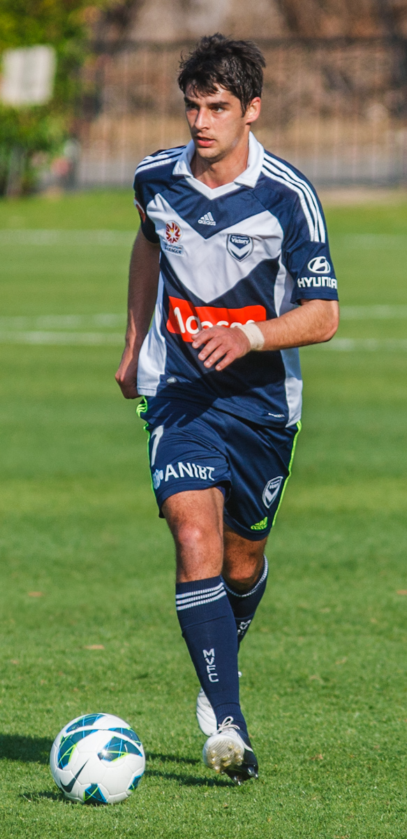 Guilherme Finkler playing in a pre-season game between the Central Coast Mariners and Melbourne Victory on 16/09/2012.